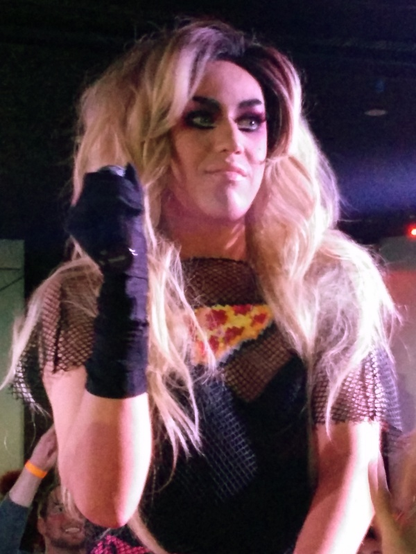 Adore Delano performing at the Café in San Francisco, California, United States.